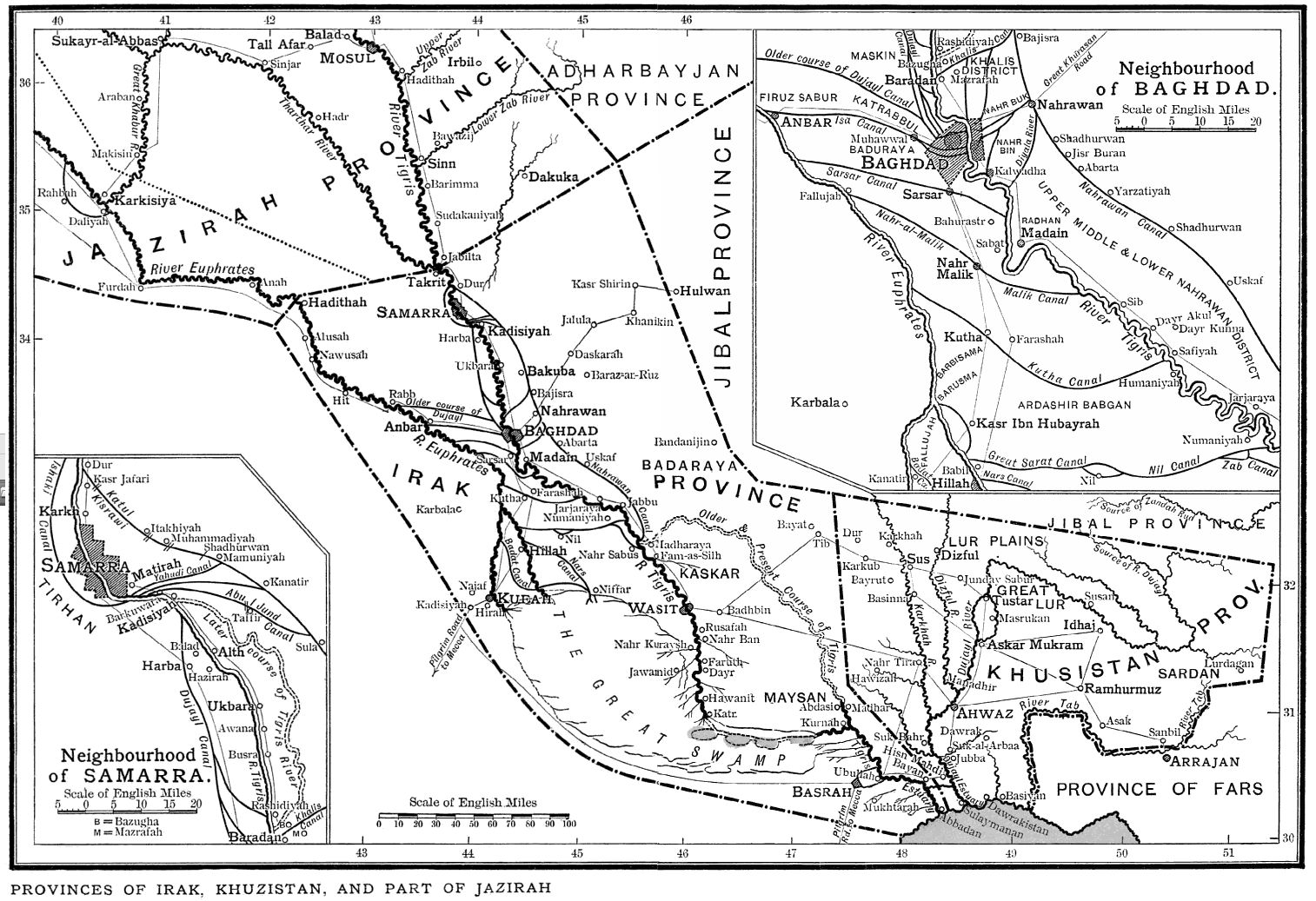 Map of Iraq and Khuzestan, with inserts on the vicinities of Baghdad and Samarra, during the Abbasid period (8th-13th centuries)